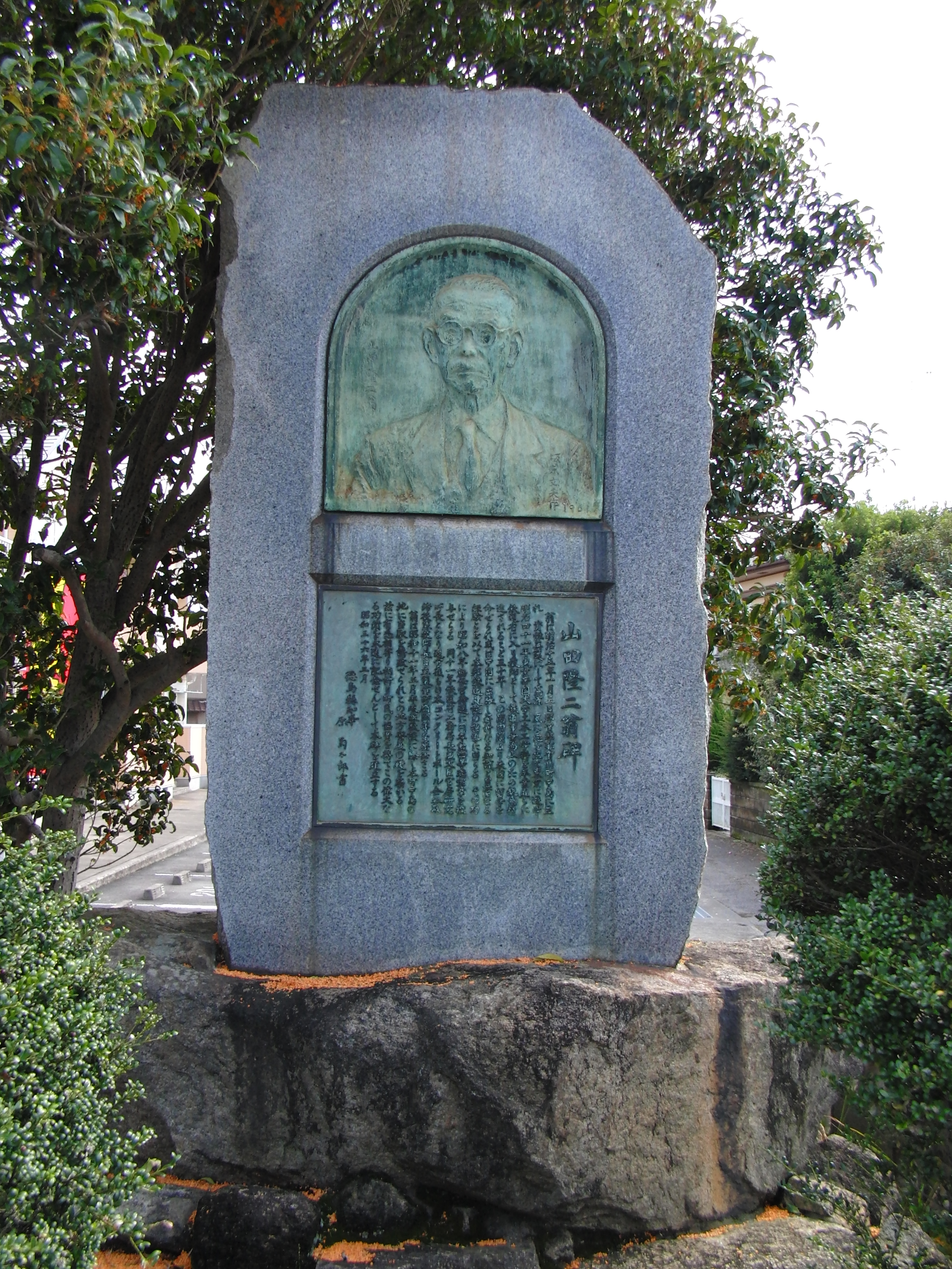 Monument stone in front of Awa-Nakashima Station commemorating Ryuji Yamada, engineer at the Railway Ministry of Japan